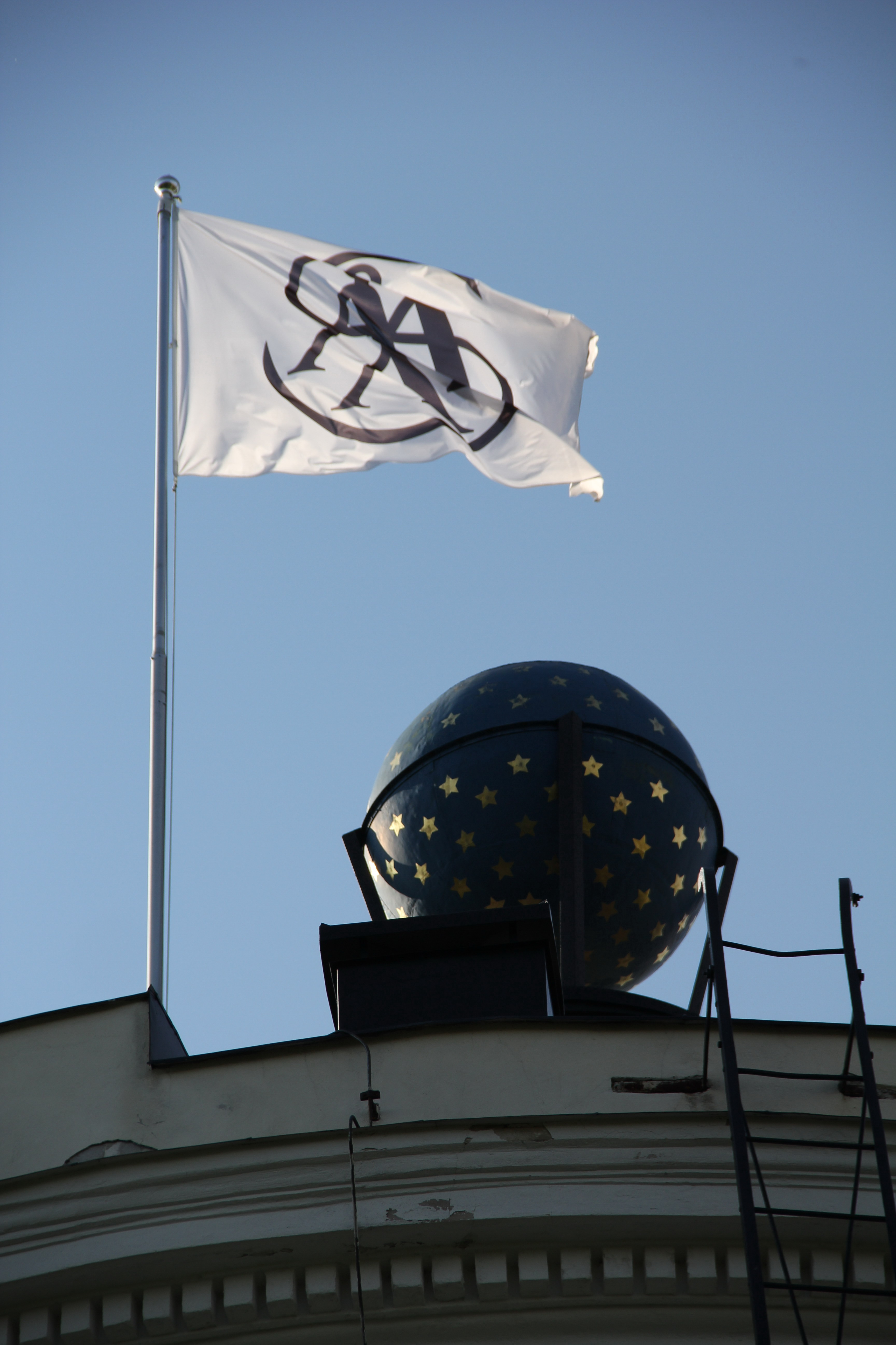 Vartiovuori Observatory is a former observatory in Turku, Finland. The building is designed by architect Carl Ludvig Engel. It was completed in 1819. Foundation Stiftelsen för Åbo Akademi's flag flying.'